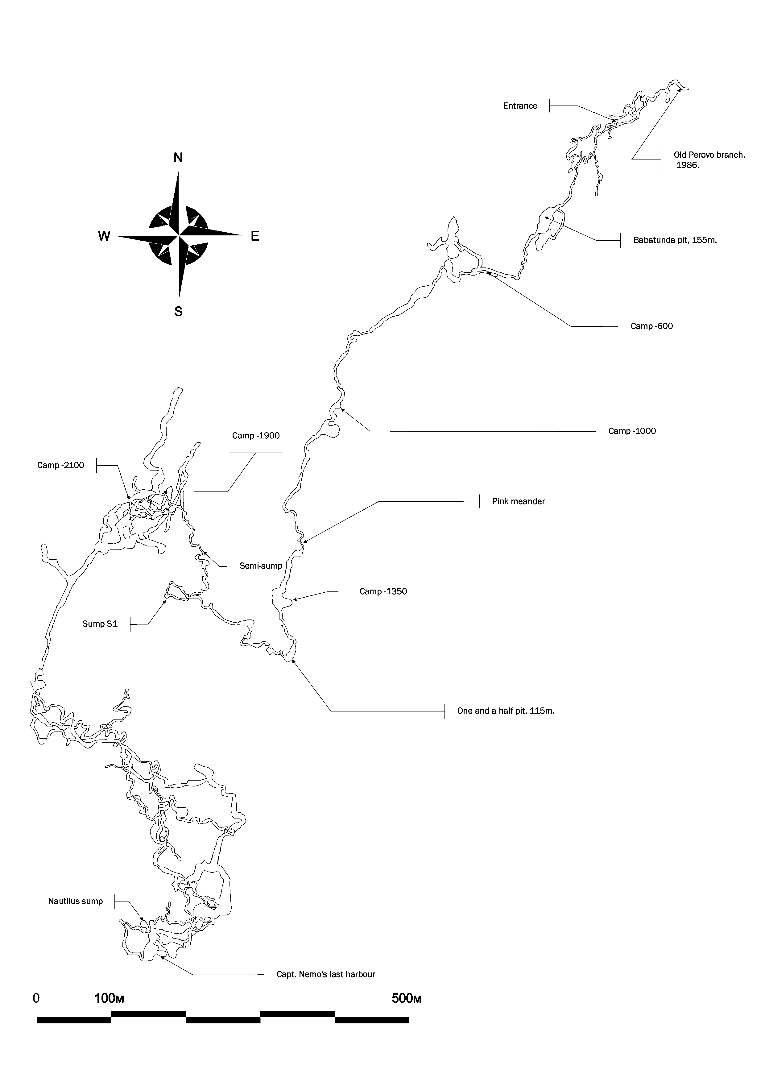 Veryovkina cave, Plan 2018